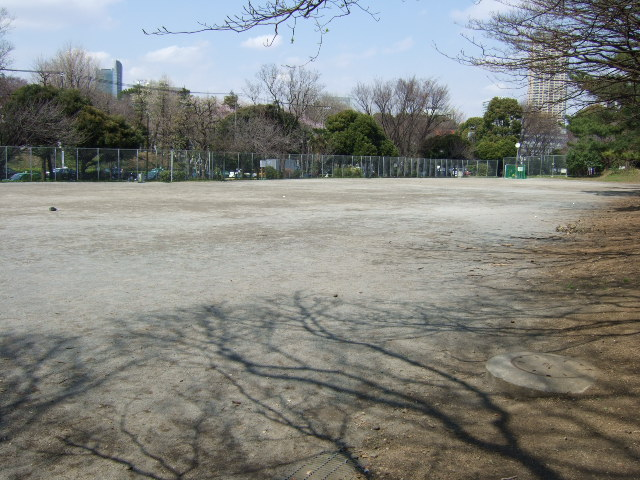 Aoyama Park, Tokyo, Japan